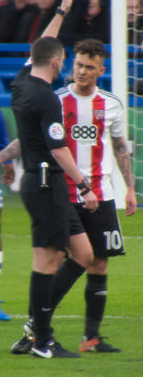 Josh McEachran, Brentford FC footballer, Stamford Bridge, London, January 2017.